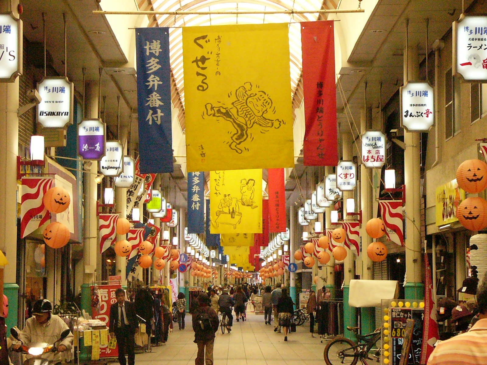 Kawabata-dori arcade